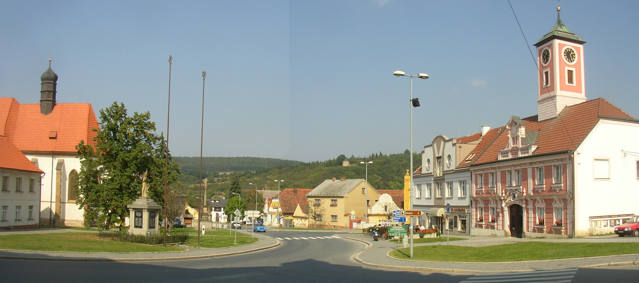 Masaryk Square in centre of Starý Plzenec, Plzeň-City District, Czech Republic. A view from the south. east. In the left Church of Nativity of St John the Baptist, an edifice of Romanesque origin, later rebuilt in Gothic style. Memorial of World War and Marian Column from 1721 can be seen next to the church. In the right the Town Hall. Rotunda of St Peter is also visible on a hill in the background.